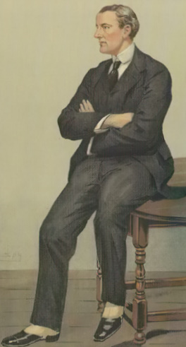 A caricature of Edward Marshall-Hall. Caption read "Southport Division".